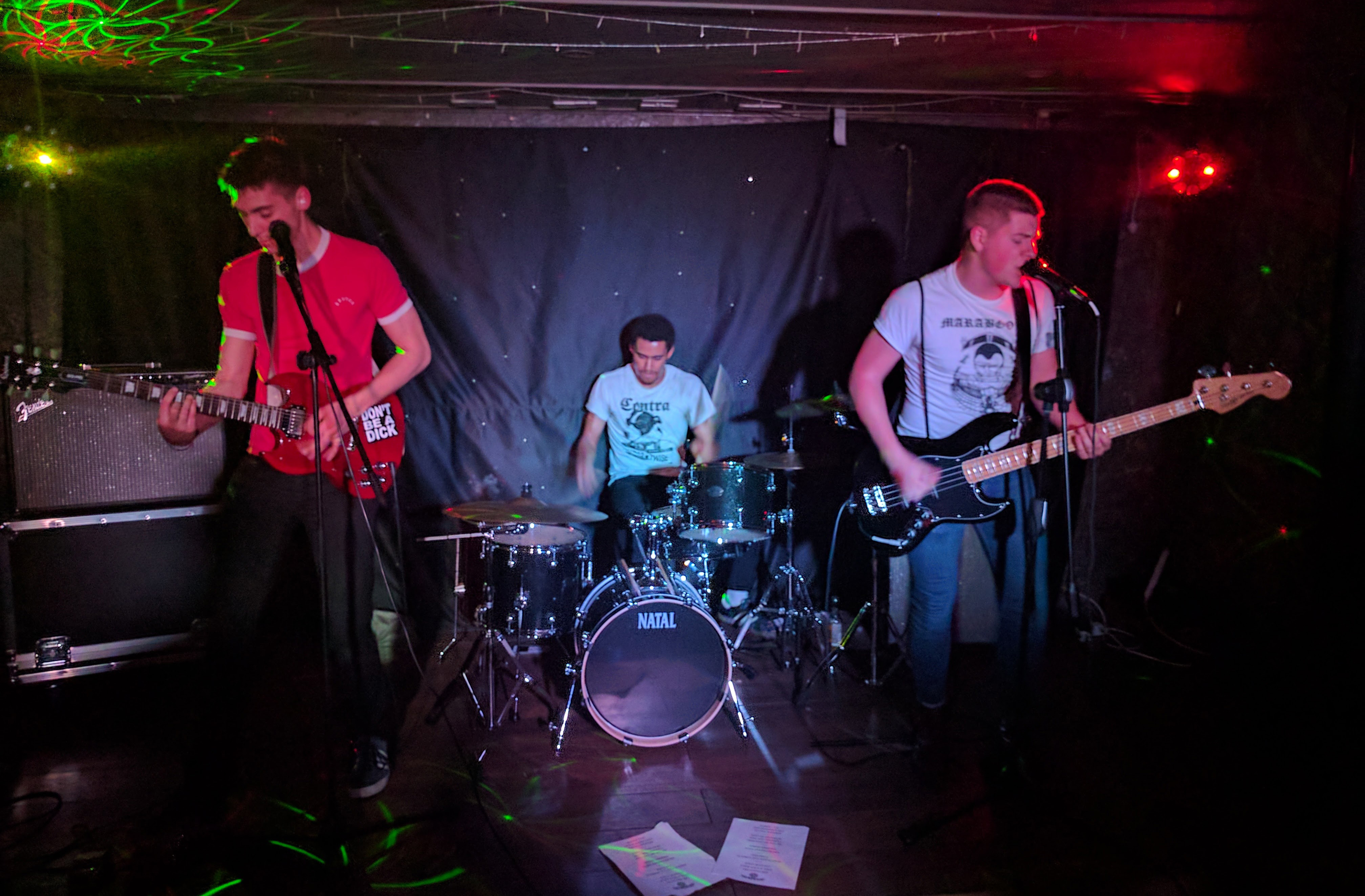 This is a photograph of Grade 2 (band) playing live at the Black Sheep Bar, Ryde, Isle of Wight, on 4 May 2017.